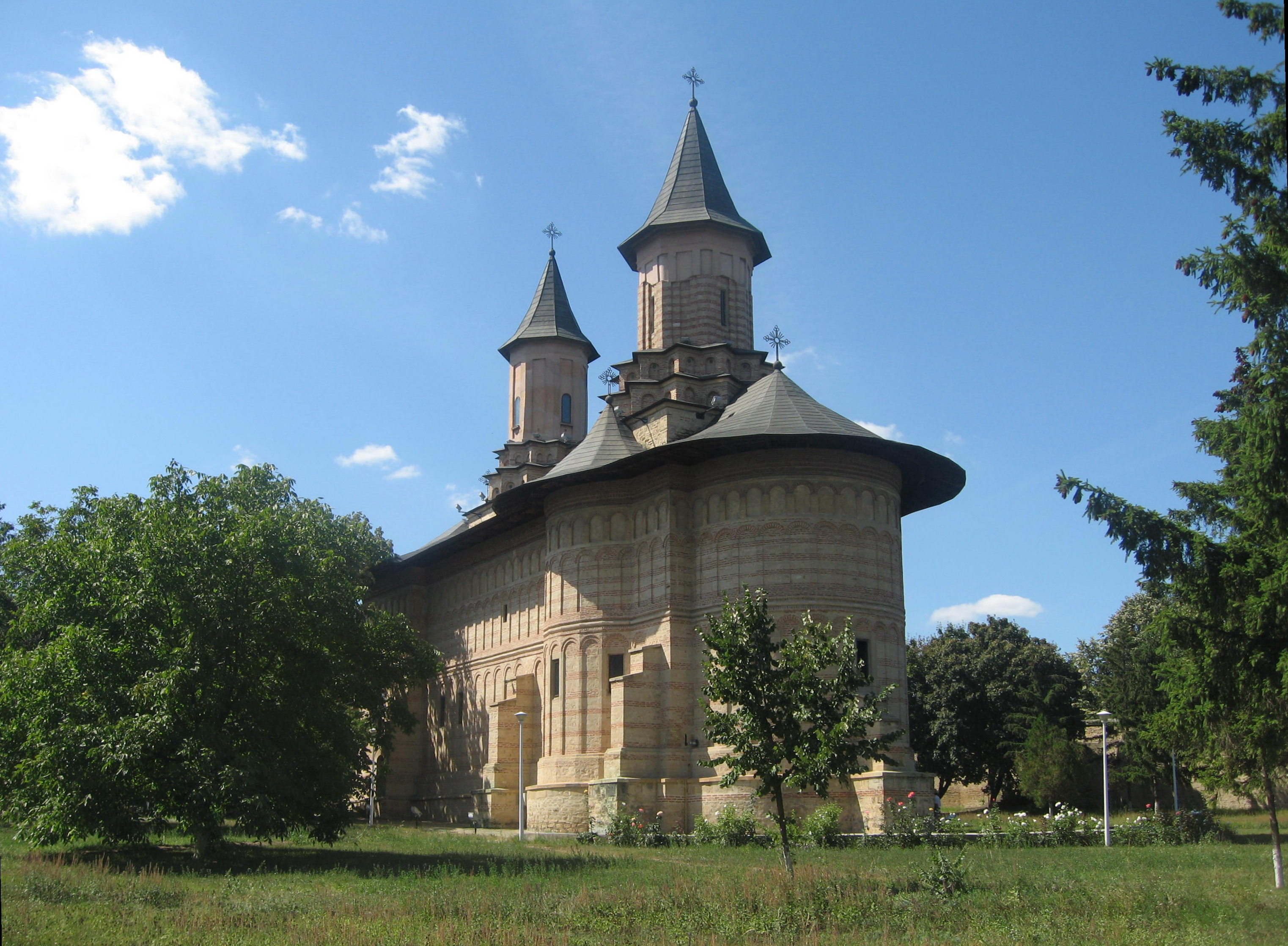 Manastirea Galata